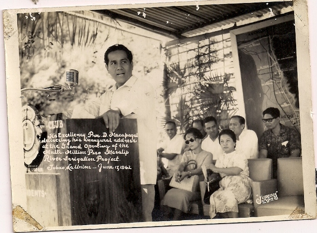 President Diosdado Macapagal inaugurating the Masalip Dam in Tubao, La Union. From the private collection of Mayor Florencio Baltazar.